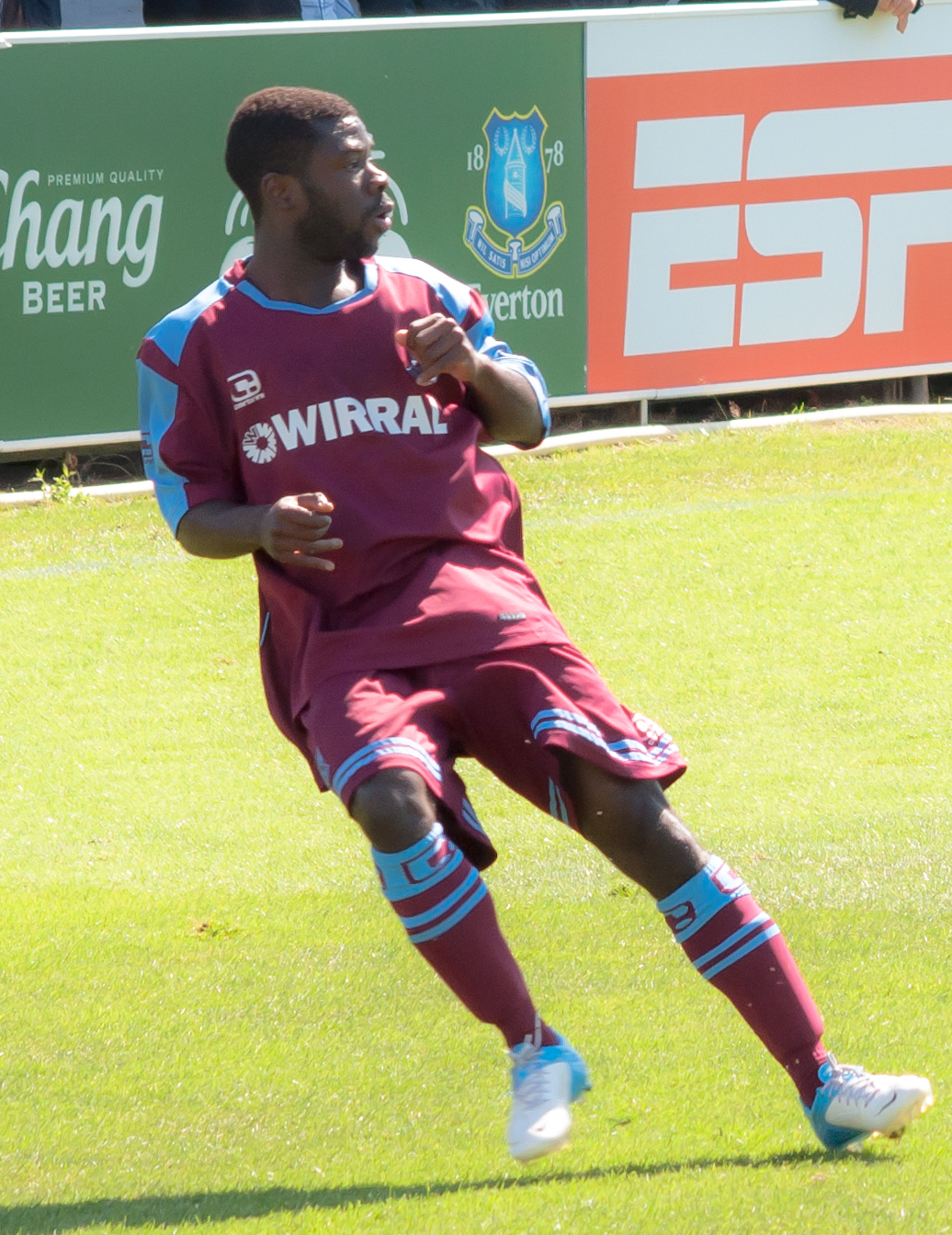 crop of Abdulai Bell-Baggie from a photo of Tranmere Rovers v Marine.